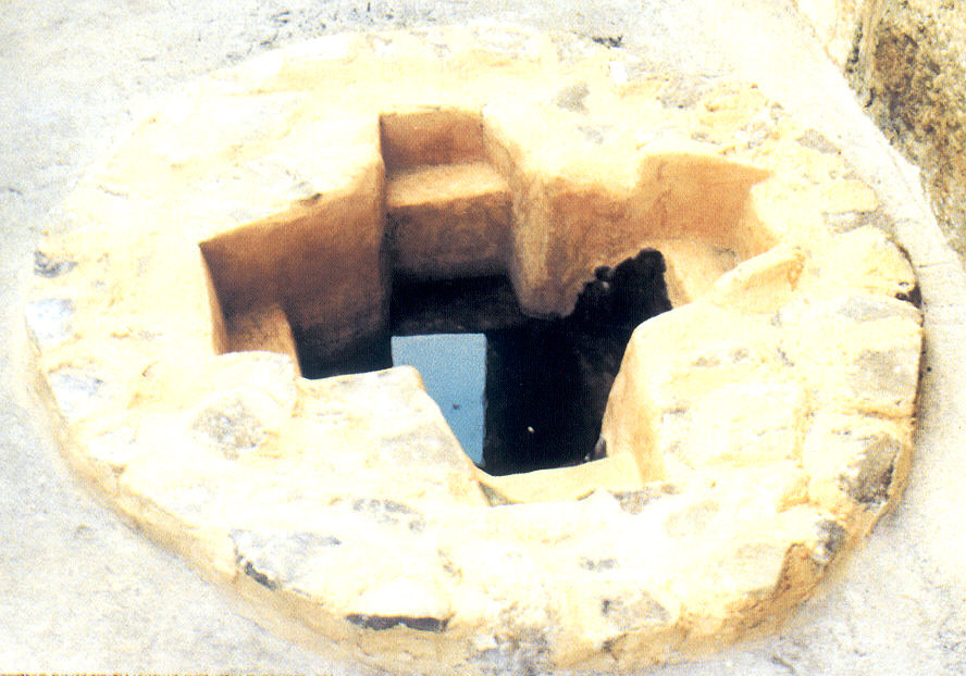 Old Christian baptistery in front of basilica in Drinovci, Grude, dating 3rd century AD